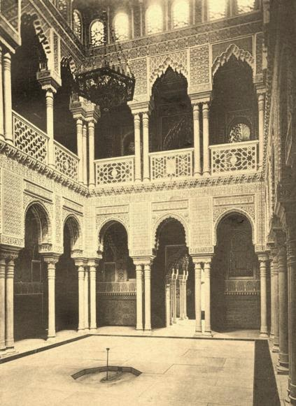 Interior of the Palacio de Xifré (Madrid)